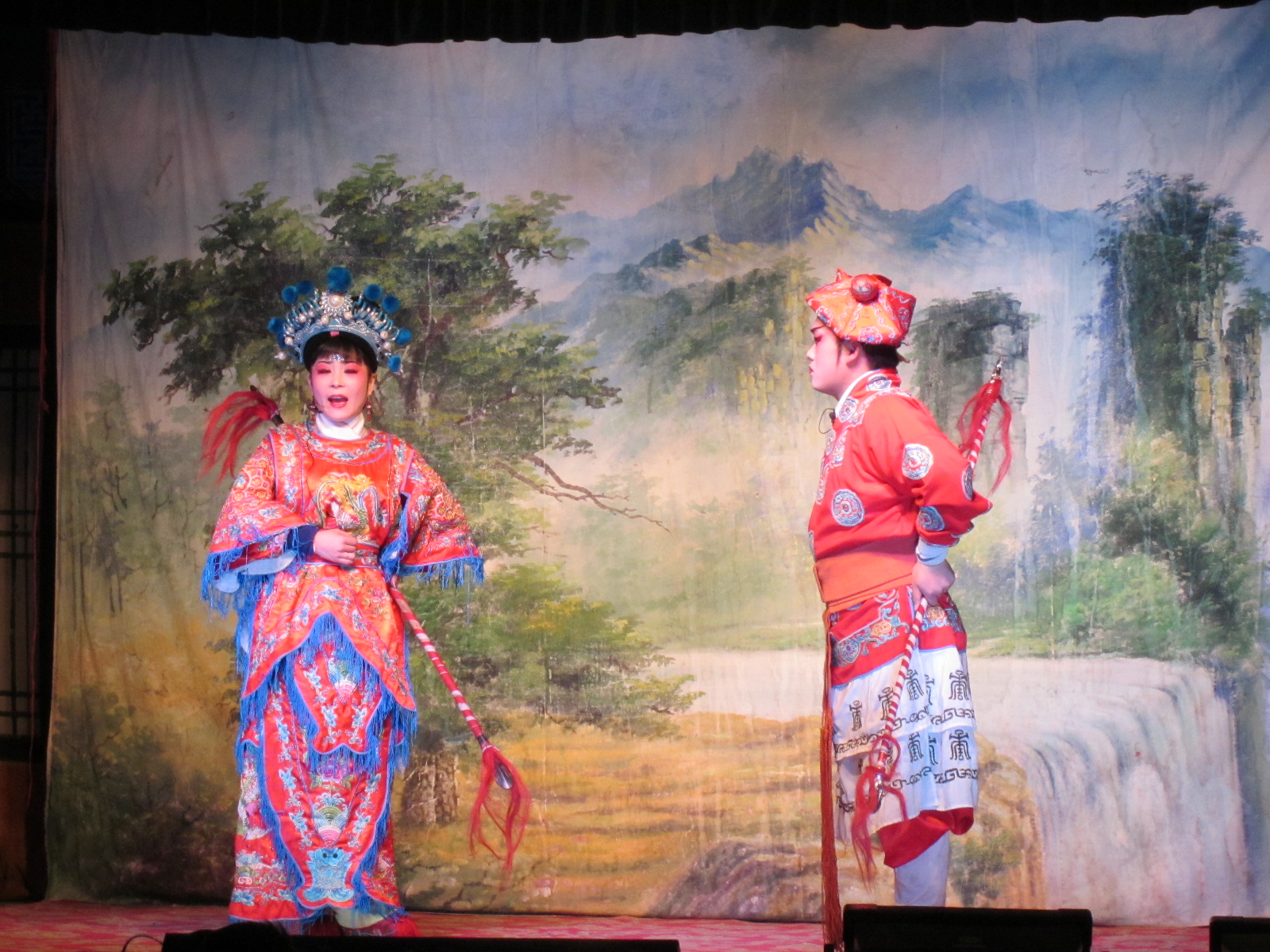 Changsha Flower Drum Opera, Changsha mandarin dialect is used on stage, giving a greater impact to Hunan style of Flower Drum play.